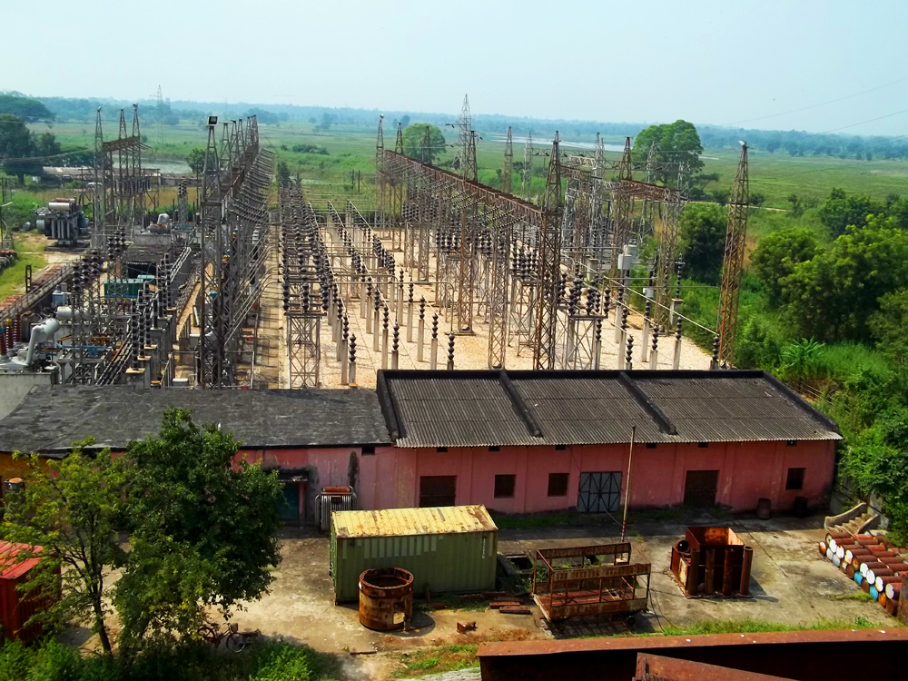 Chipilima Hydro Electric Project (CHEP) (Oriya: ଚିପିଲିମା ଜଳବିଦ୍ୟୁତ ପ୍ରକଳ୍ପ) is a hydropower plant located iat Chipilima, Sambalpur, Orissa, India